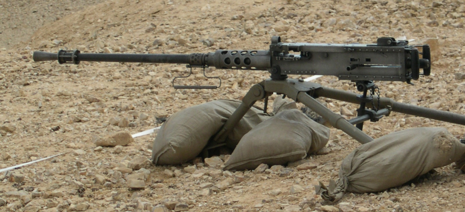 M2 (machine gun) machinegun, in use by the Israel Defense Forces